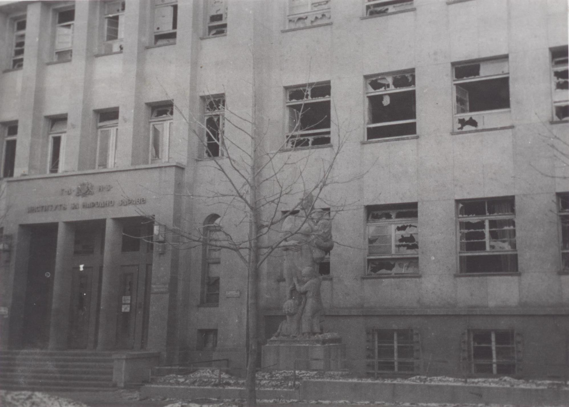 Sofia Bombings 1944: The Institute for People's Health